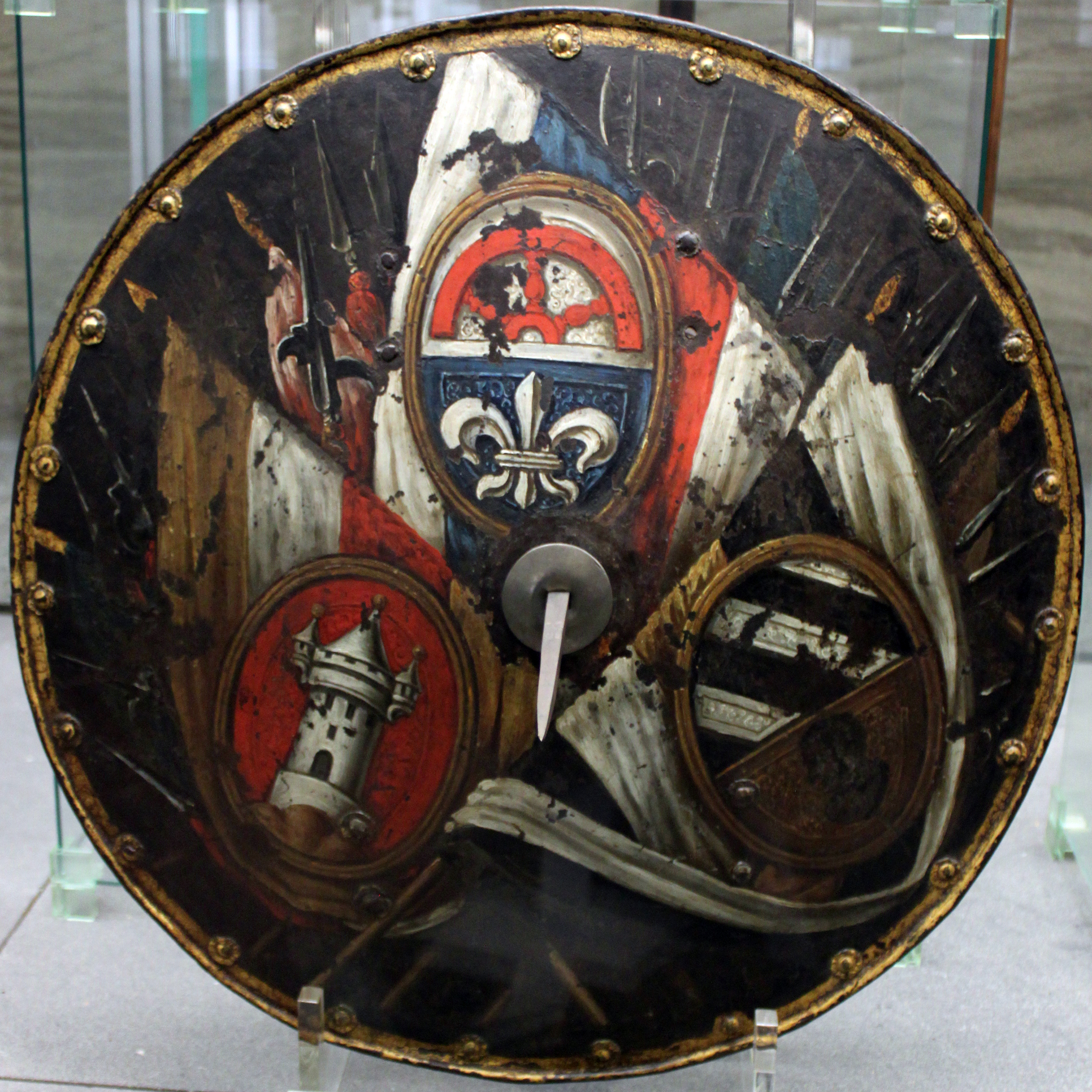 Round shield with the arms of the city of Nuremberg of the three chief captains Volckamer, Harsdorffer and Tucher, 1590; Germanic National Museum in Nuremberg